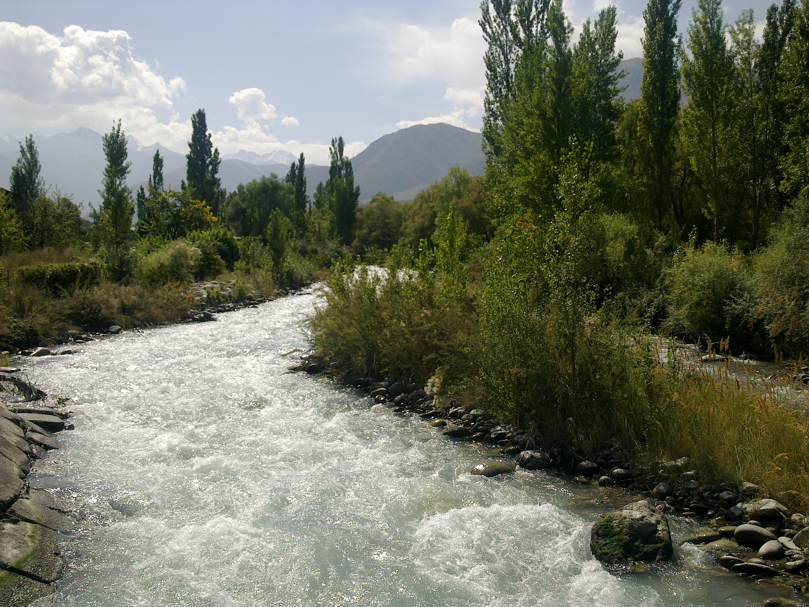 Alamudun River, Chuy Valley, Kyrgyzstan